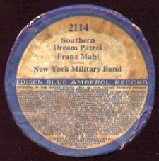 Lid of Edison Blue Amberol Records package lid, early 1910s